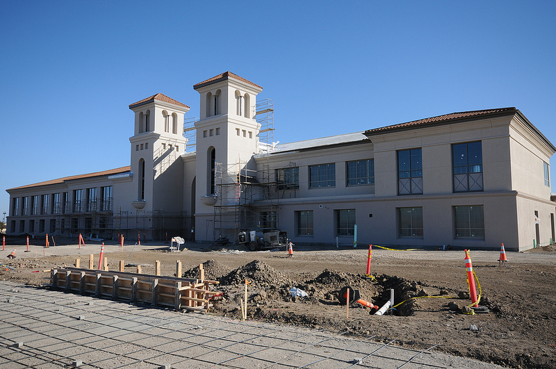 Mountain House high school first building